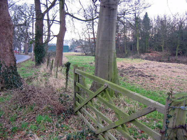 Metham Hall, Metham, East Riding of Yorkshire, England.This view through the trees towards Metham Hall which is in the top NE corner of the grid square.